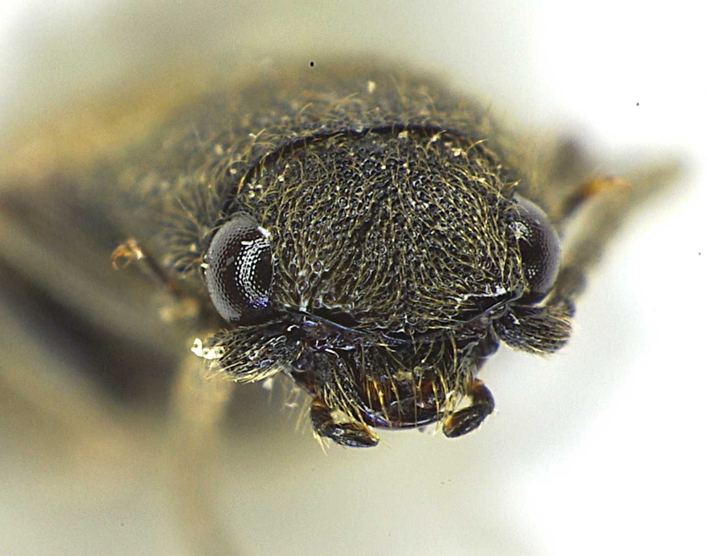 Athous bicolor male from Southern Germany